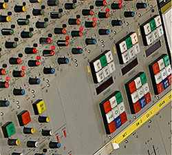 Audio console (NP U42) made by the Danish company NP Elektroakustik in Stilling, Denmark. Notice the button groups with 9 buttons to be used for controlling tape recorders and CD players - such controls are only found on audio consoles for radio broadcasting